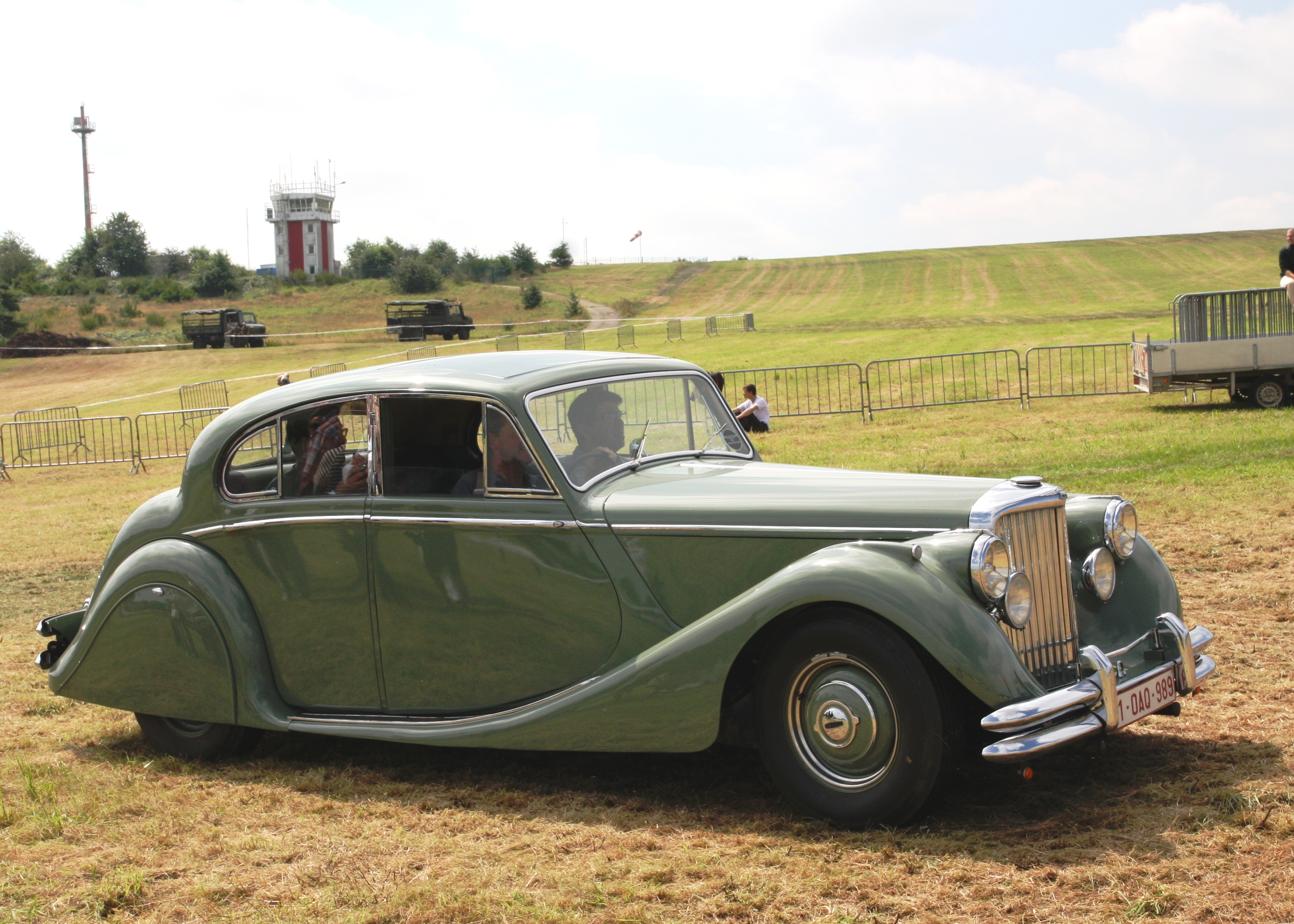 Jaguar Mark V arriving Schaffen-Diest 2016